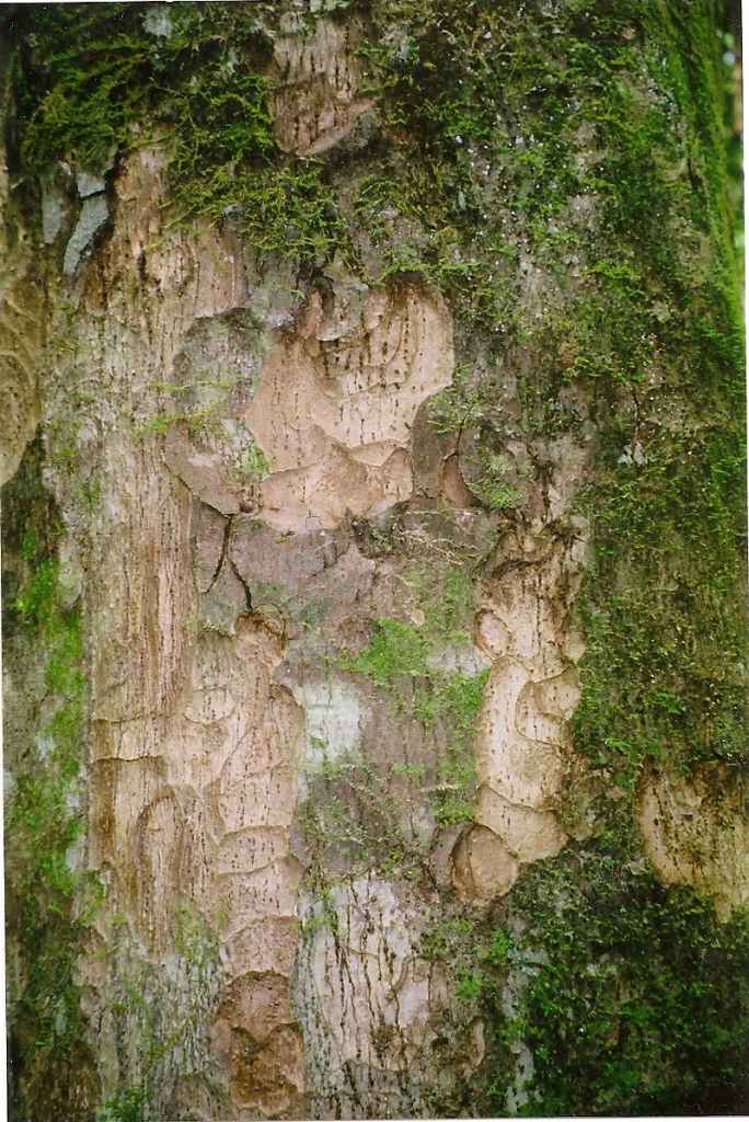 Litsea reticulata bark, Starrs Creek, near Big Nellie Mountain, near Taree, NSW, tree 38 metres tall